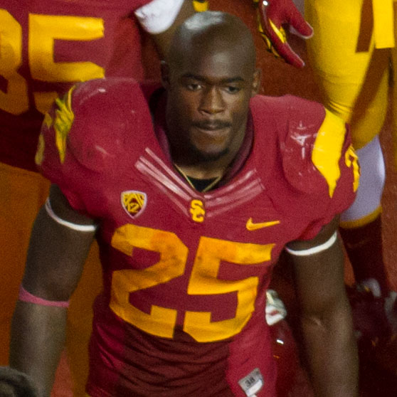 Running back Silas Redd after a game in the 2012 USC Trojans football season.